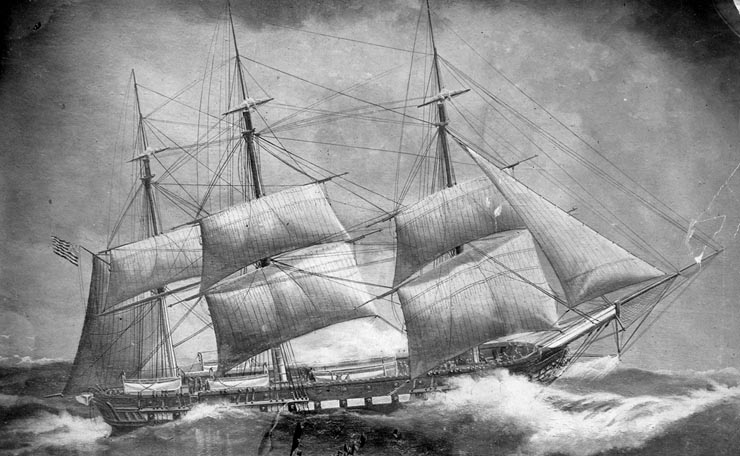 USS Congress (1842-1862). This painting depicts the frigate under sail in heavy seas. U.S. Naval Historical Center. Photo number NH 590.